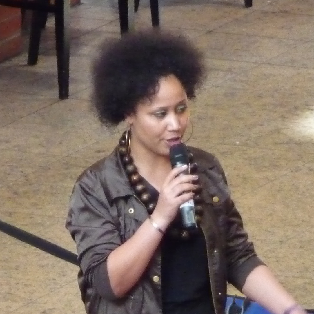 Madalena Joao, project "Move and sing with Hanka a Nova (Hejbejte se a zpívejte s Hankou a Novou)", Vaňkovka, Brno